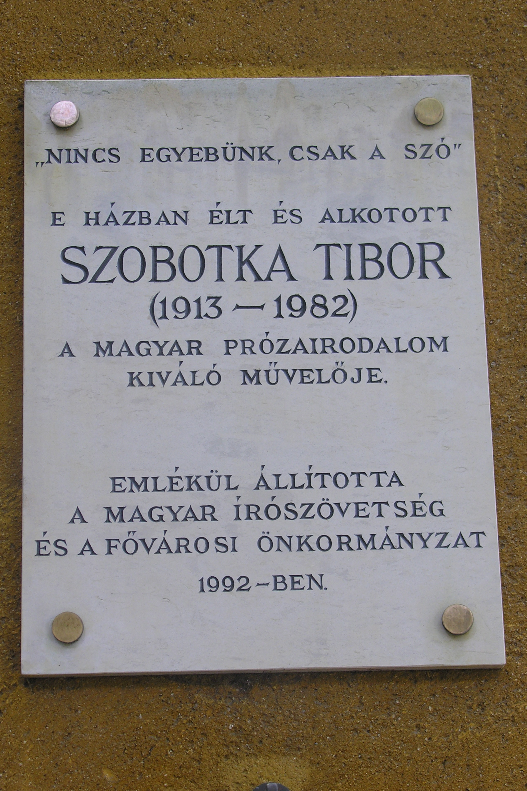 Commemorative plaque of Tibor Szobotka in Budapest District II, Júlia Street No 3